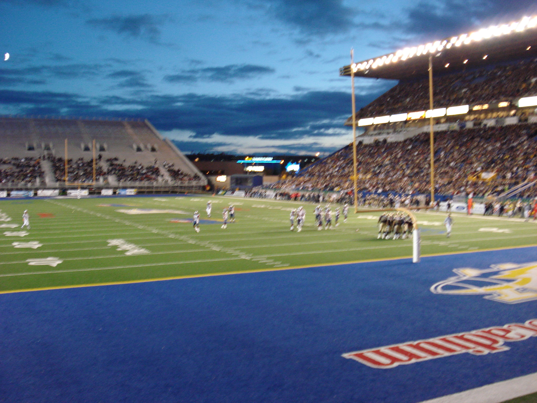 Blue Bombers Game at Canad Inns Stadium - Winnipeg, MB - Canada